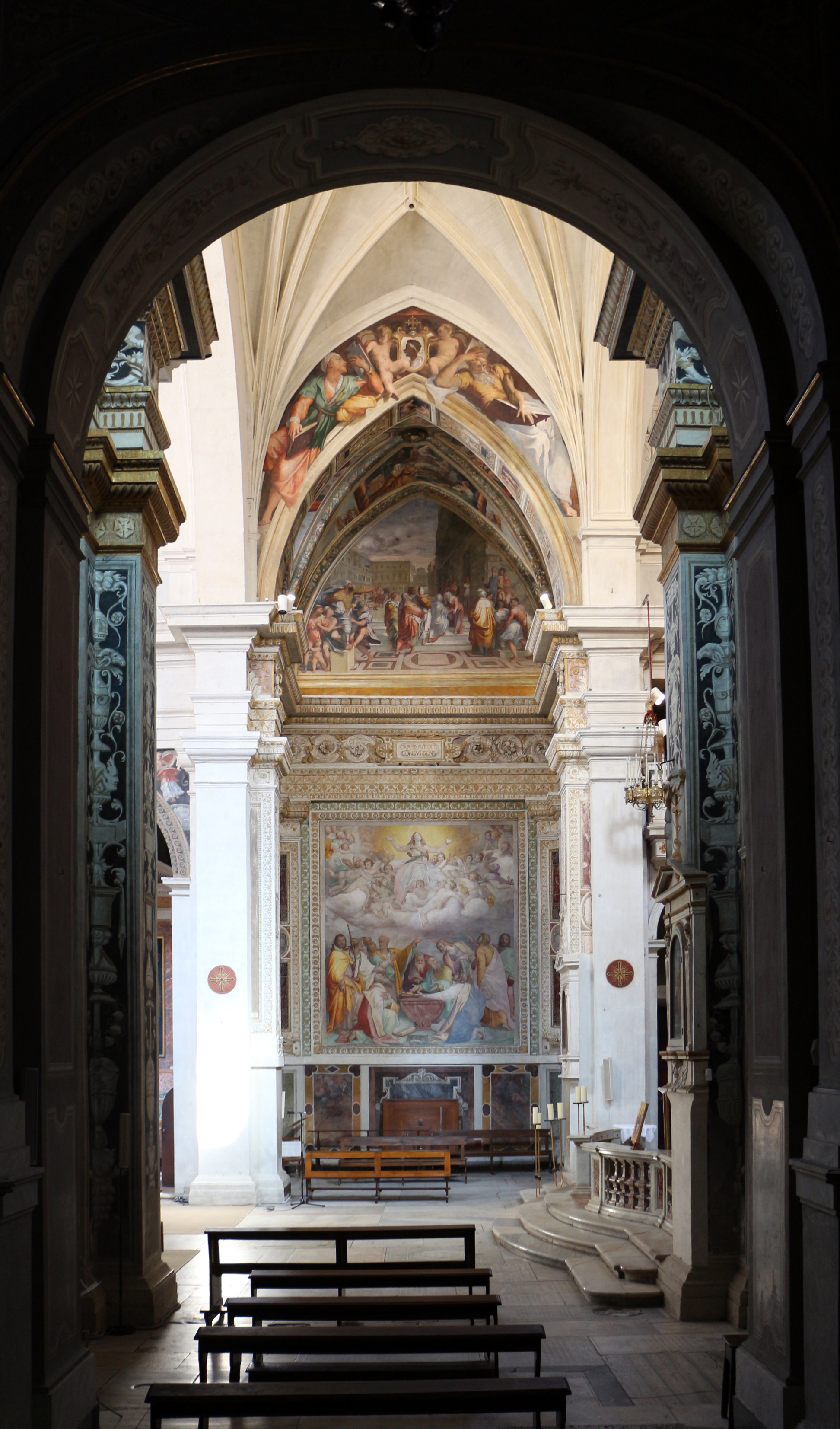 Trinità dei Monti (Rome) - Pucci Chapel